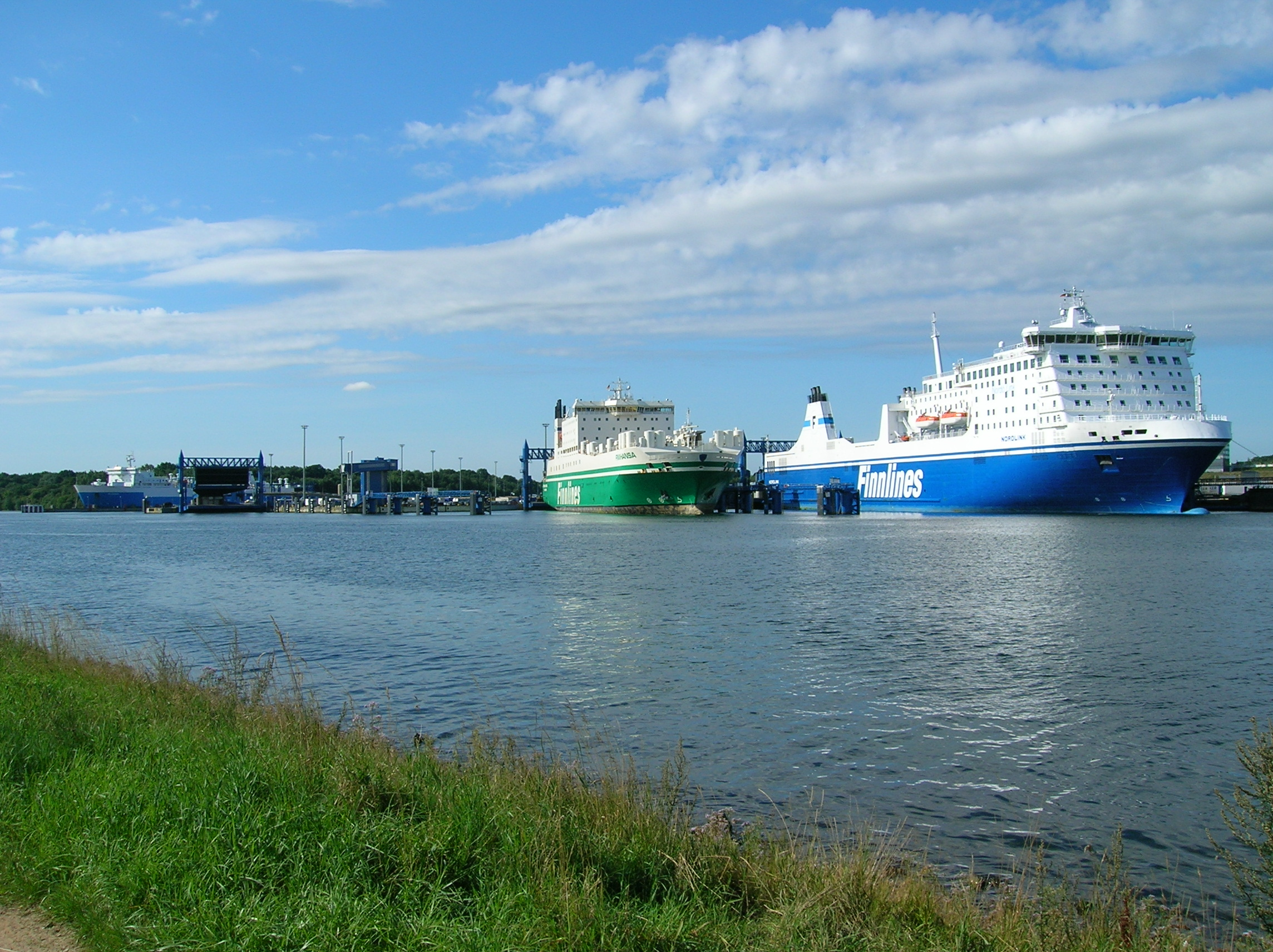 The M/S Nordlink, M/S Finnhansa and M/S Runner at the Skandinavienkai in Travemünde, Germany